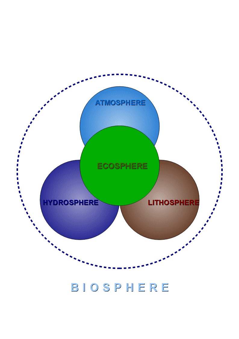 Biosphere as a system containing lithosphere, atmosphere, hydrosphere and, in the middle of those : ecosphere. Picture created according to the Gaia hypothesis's theory.